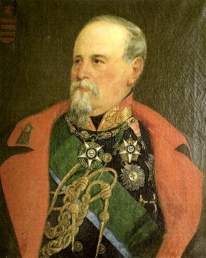 D. Carlos Mascarenhas (1803-1861), brother of the 7th Marquess of Fronteira.